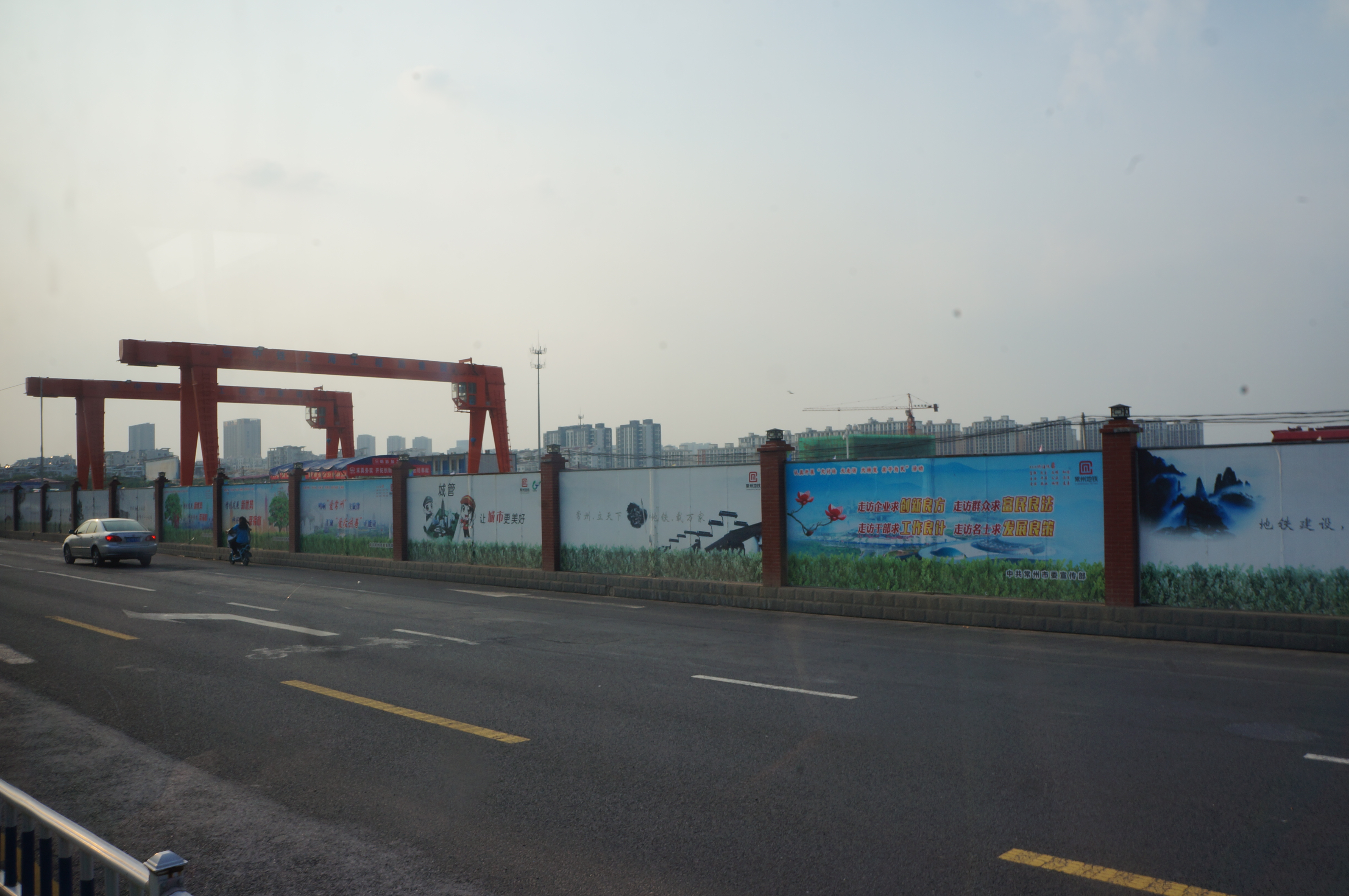 Located near the CZFLS, formerly called as Longhutang Station